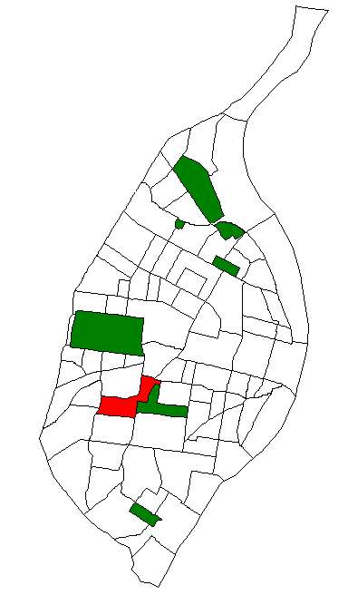 Map of St. Louis Neighborhood #13